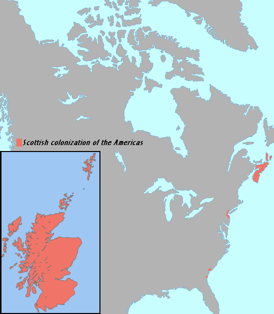 Map to show Scottish colonization of the Americas